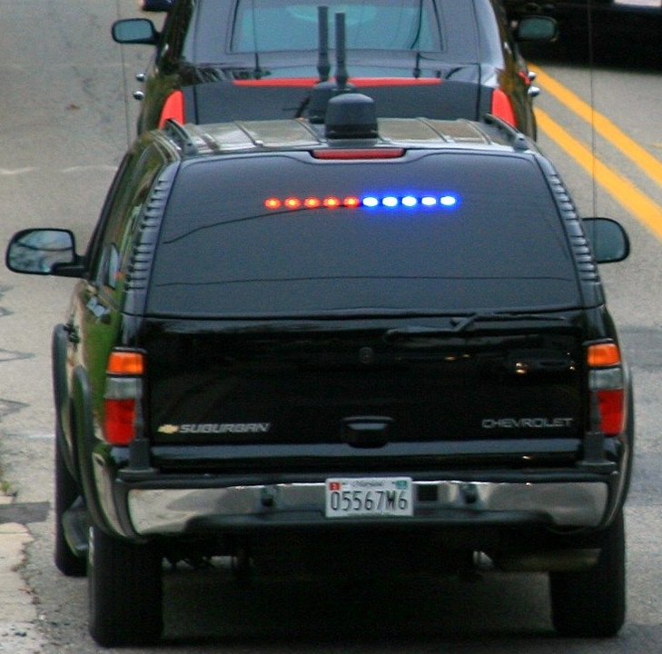 The President's motorcade on Ada Drive going to Dick DeVos's house after having lunch in downtown Ada at Schnitz Grill above the Ada Bike Shop.